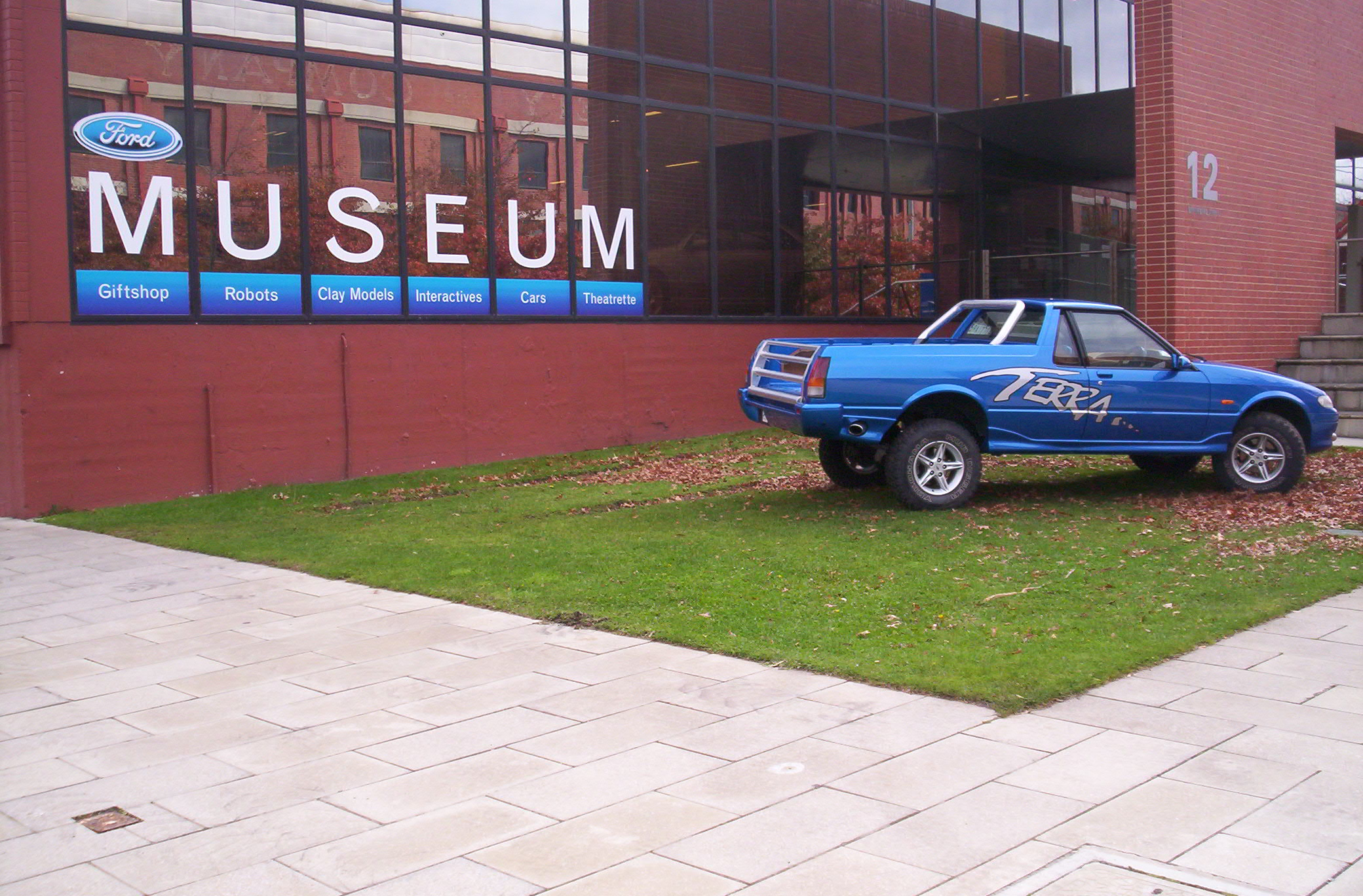 Photo taken myself.